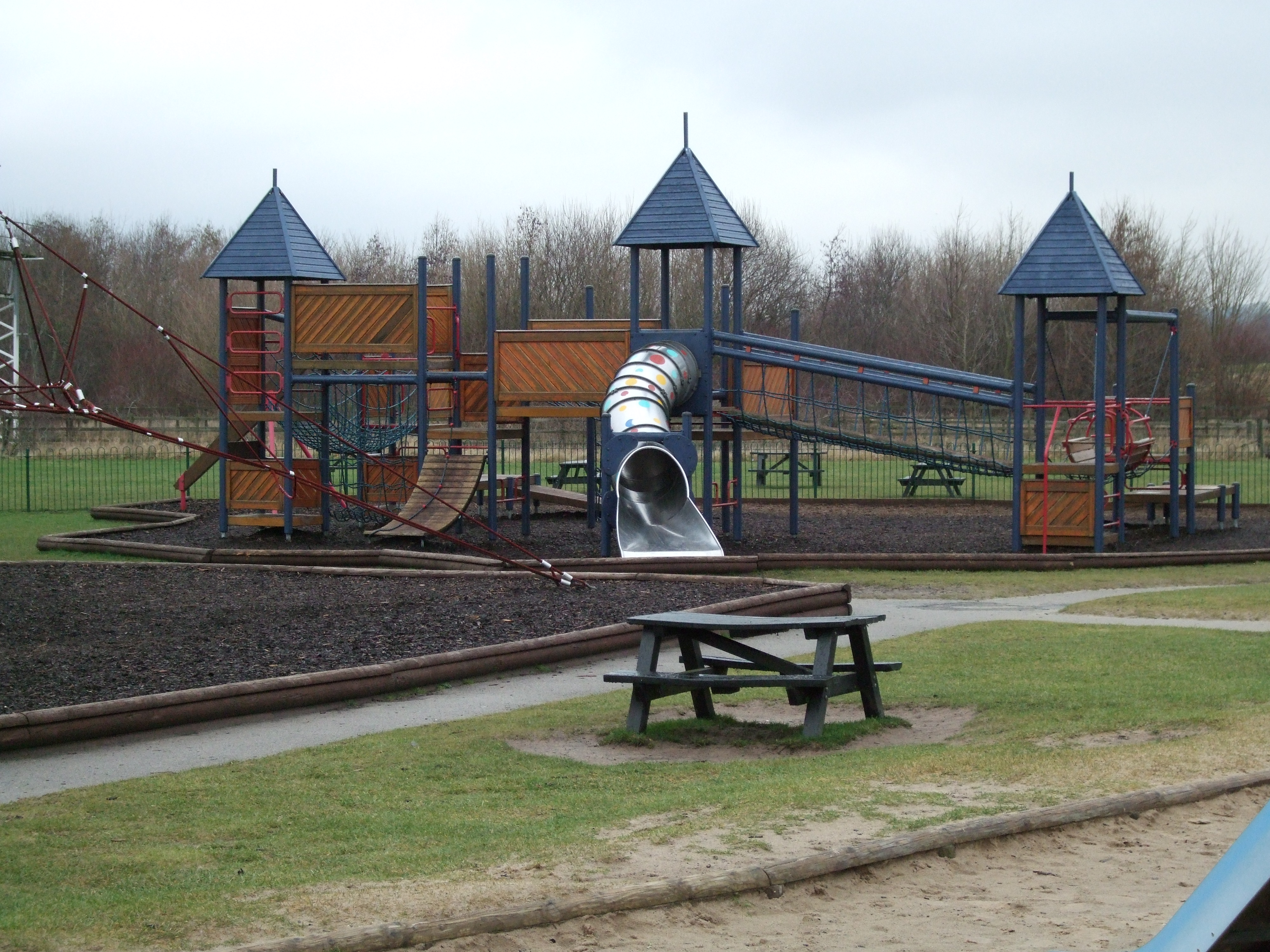 Rushcliffe Country Park Play Area